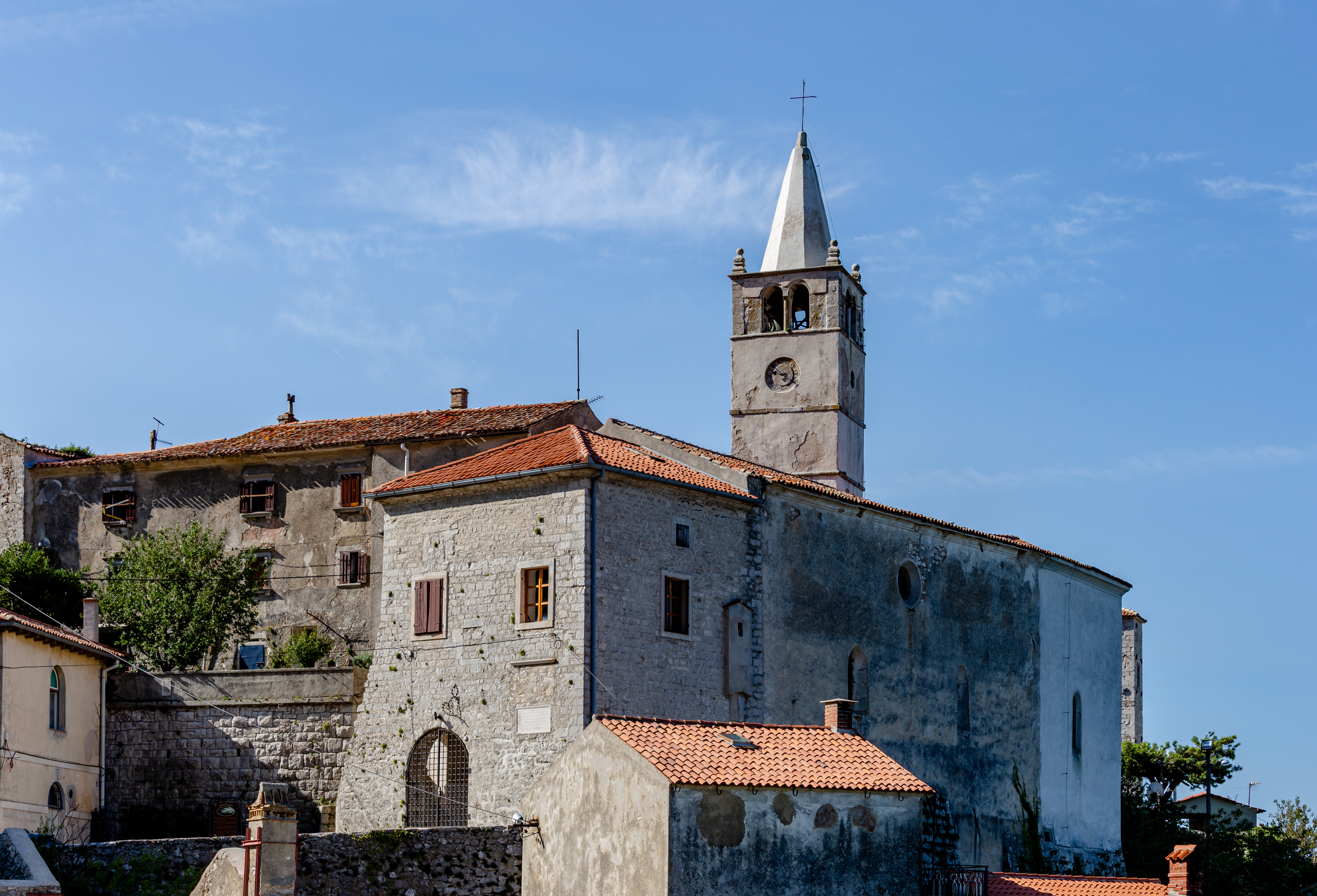 View of Plomin, Istria County, Croatia